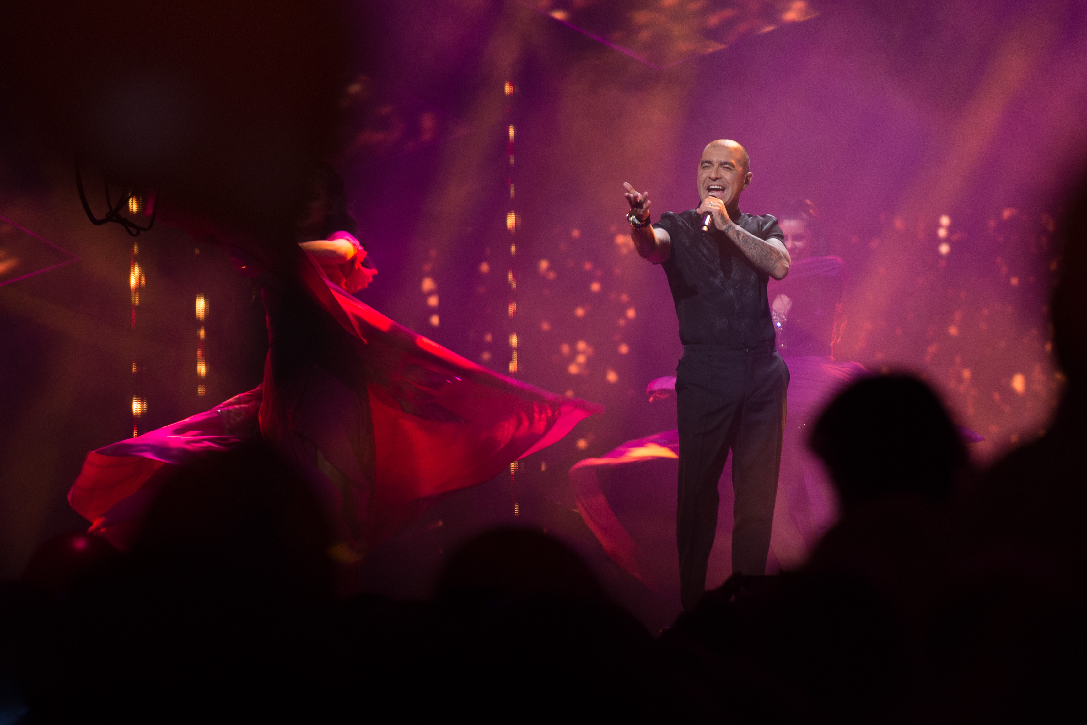 Melodifestivalen 2018 Final in Stockholm